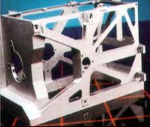 نگهدارنده این حسگرها باید استحکام بالایی داشته باشد